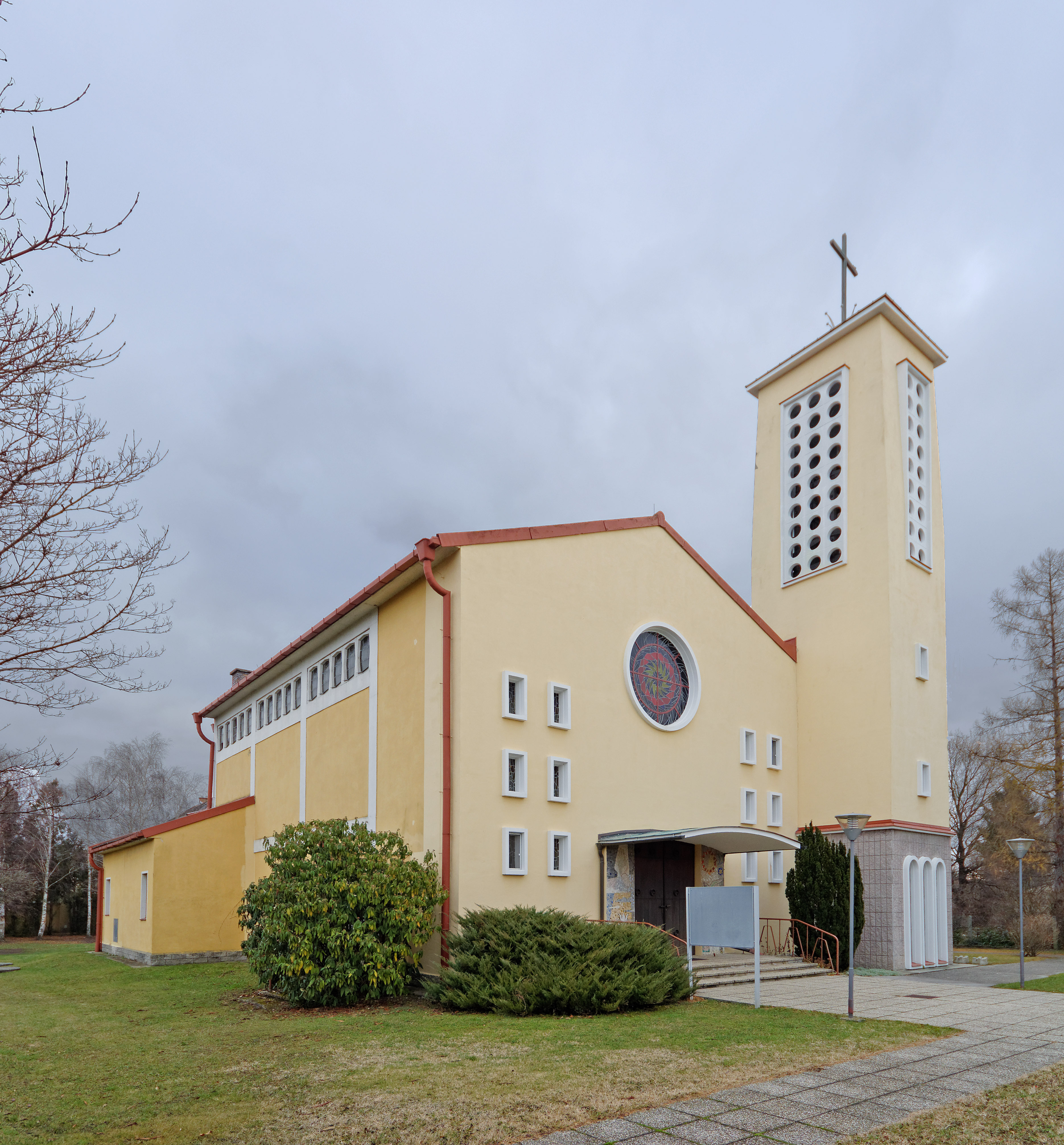 Catholic parish church in Angern an der March, Lower Austria, Austria